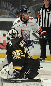 Kent McDonell during a SHL game against AIK.